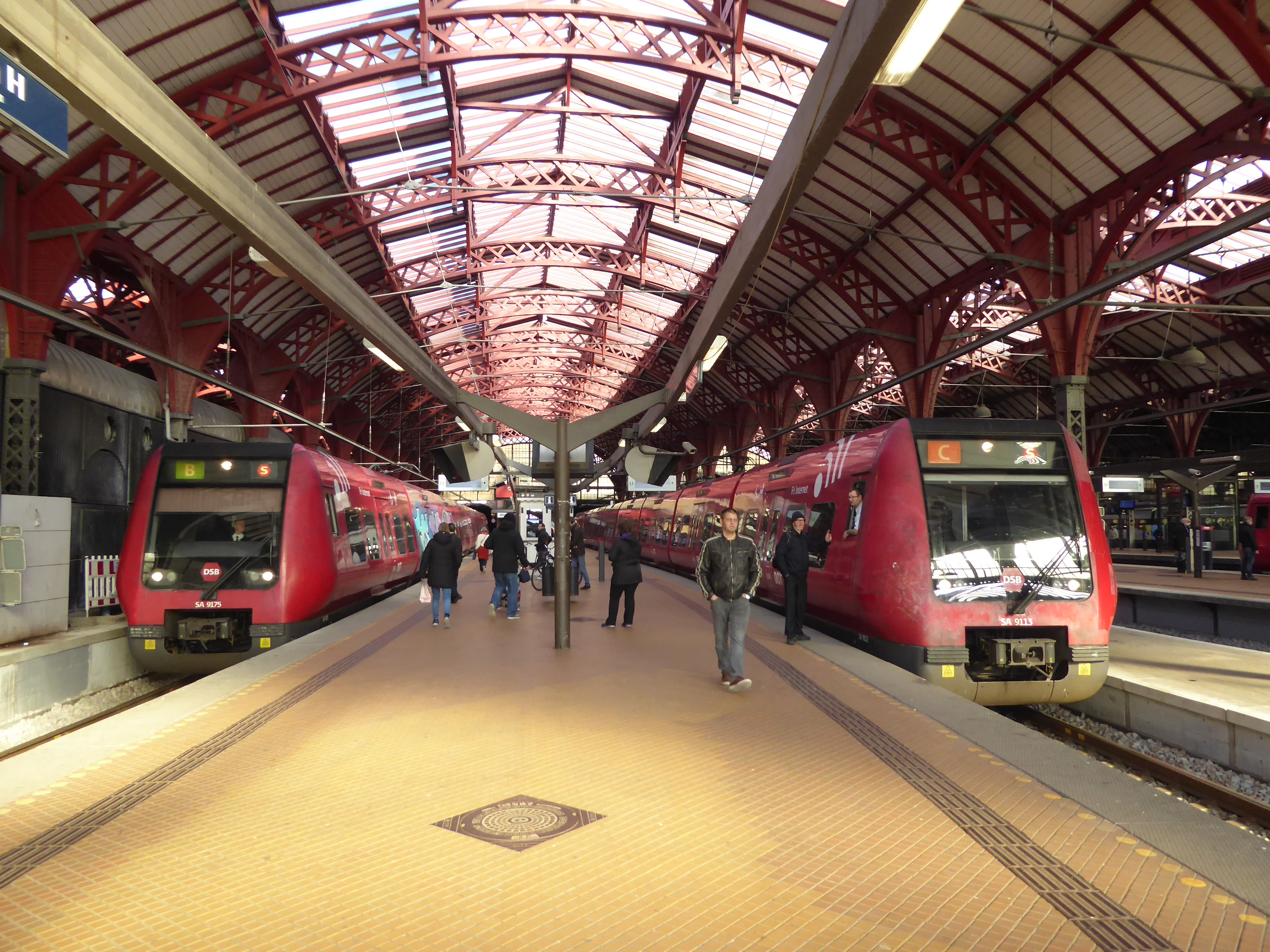 S-train line B and C at Københavns Hovedbanegård (Copenhagen Central Station).